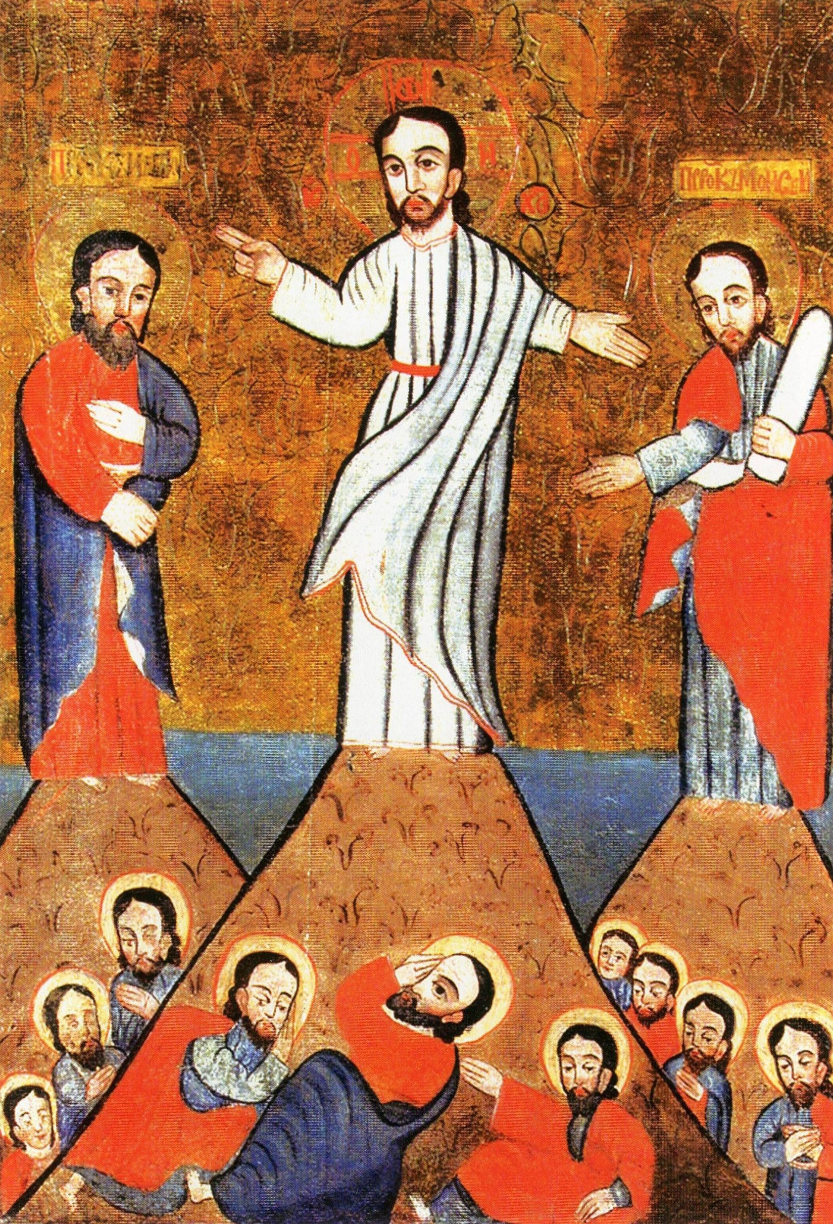 THE TRANSFIGURATION. 18th с. Wood, tempera. 124x91x1,5. St. Paraskieva's Church, Miesiatsichy, Pinsk district, Brest region. Restoration - A. Shpunt.